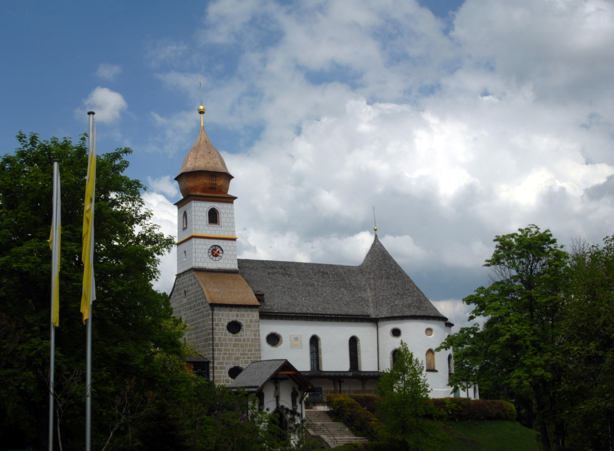 church of pilgrimage "Maria Eck"